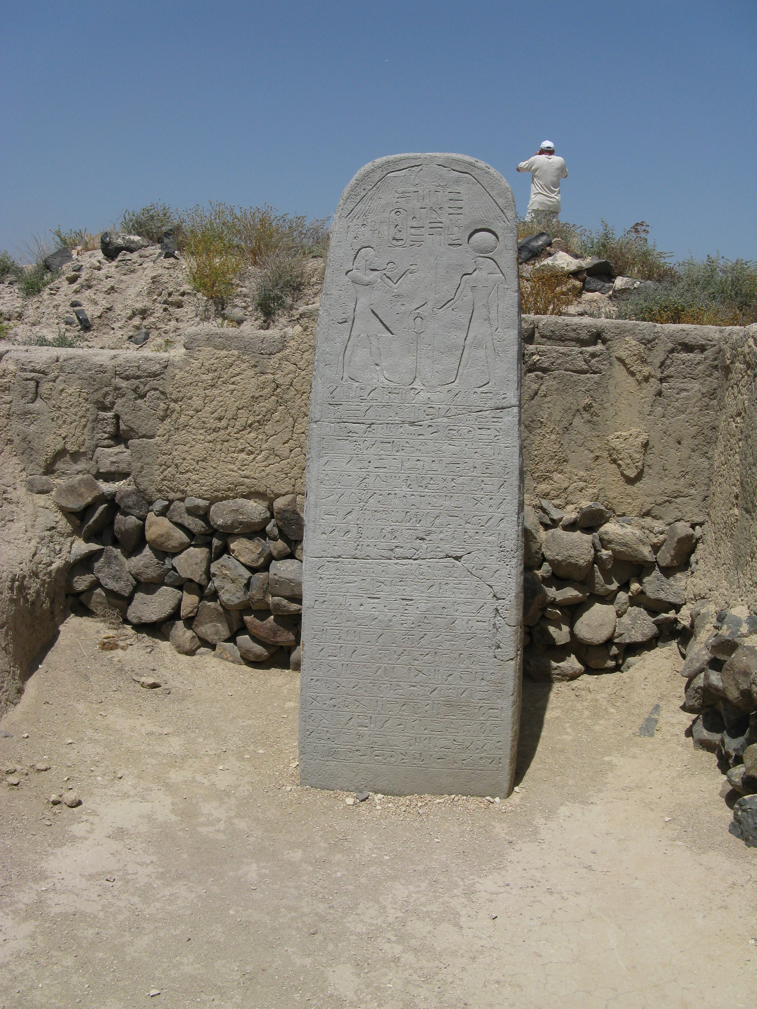 A copy of the Egyptian plate.